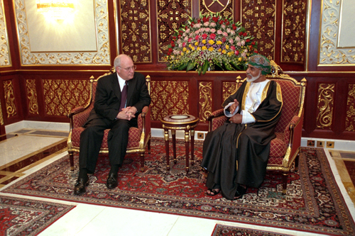 Vice President Dick Cheney meets with Sultan Qaboos in Salalah, Oman, March 14, 2002.